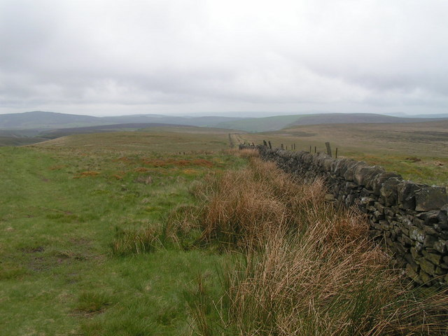 Cheeks Hill. View SSE from the point where the footpath crosses a sharply angled wall and also the county boundary - outside the wall (to the right in this picture) is Derbyshire, inside is Staffordshire. The hill to the rear left is The Roaches (SK001639).